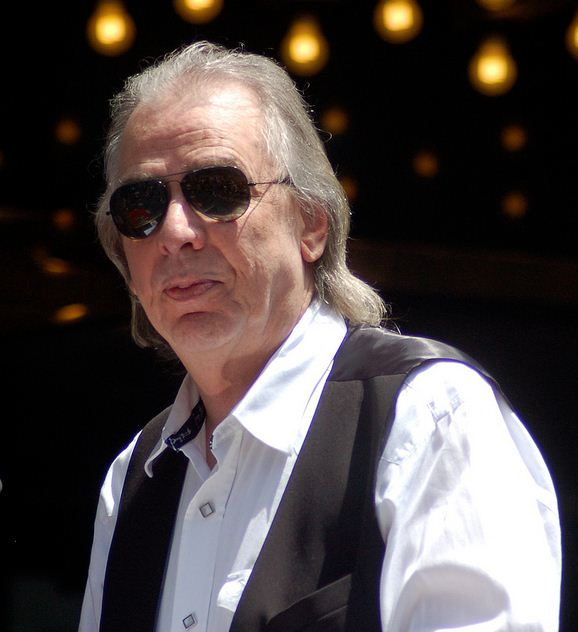 Jim Ladd at a ceremony for Slash to receive a star on the Hollywood Walk of Fame.